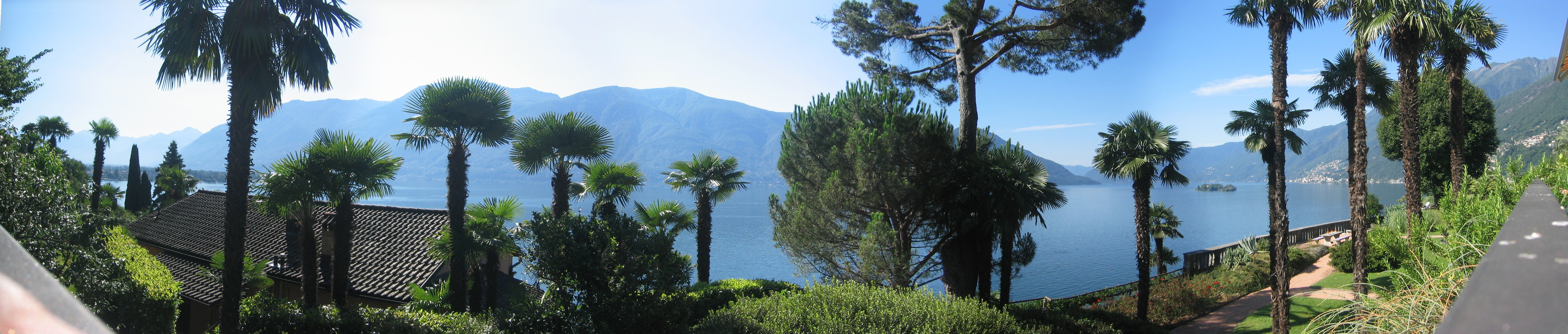 A panorama